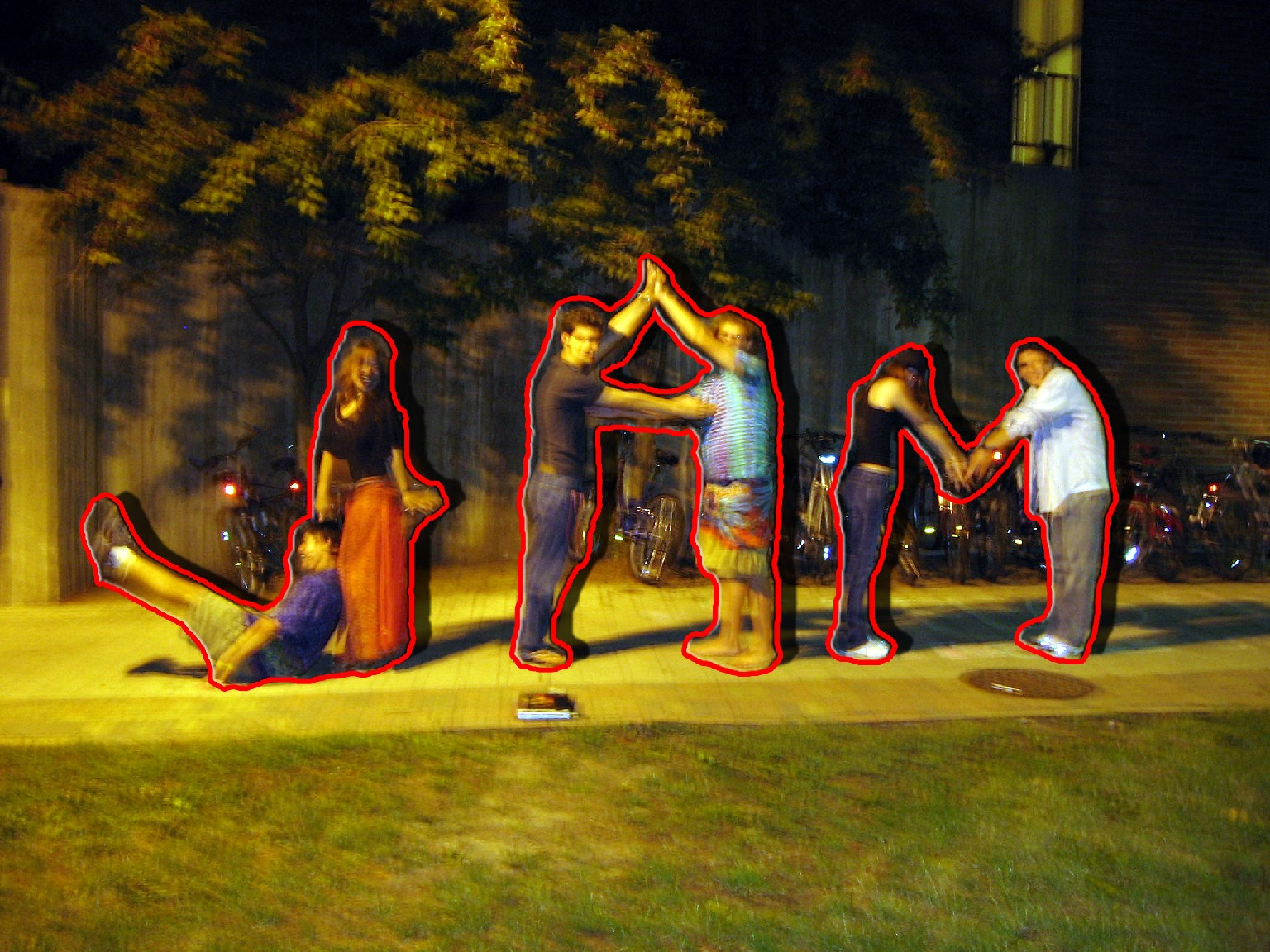 6 Jammies at the entrance of JAM spelling it out. Author: Tanya Li, Photoshop: Gali Baler